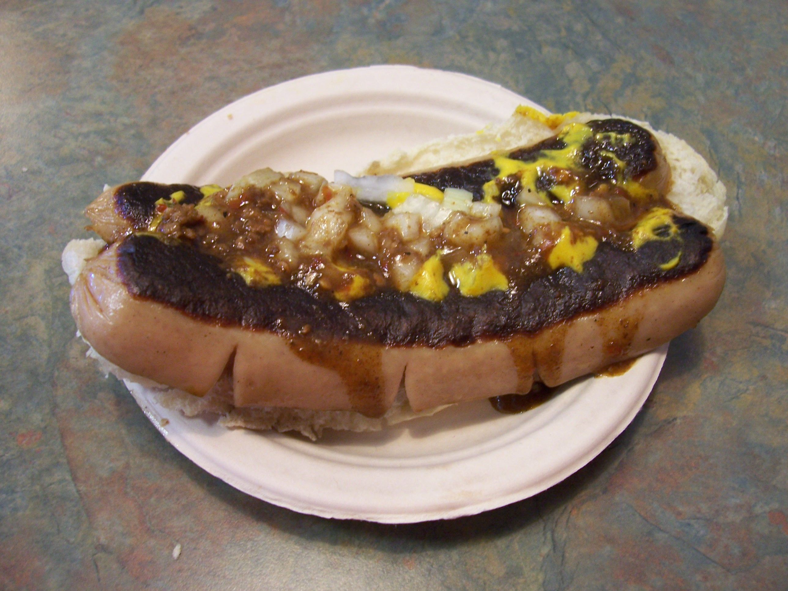 Detail of the exterior of a Zweigle's 1/4 pound white hot dog served "Bill's favorite"-style (with mustard, hot sauce, and onion)